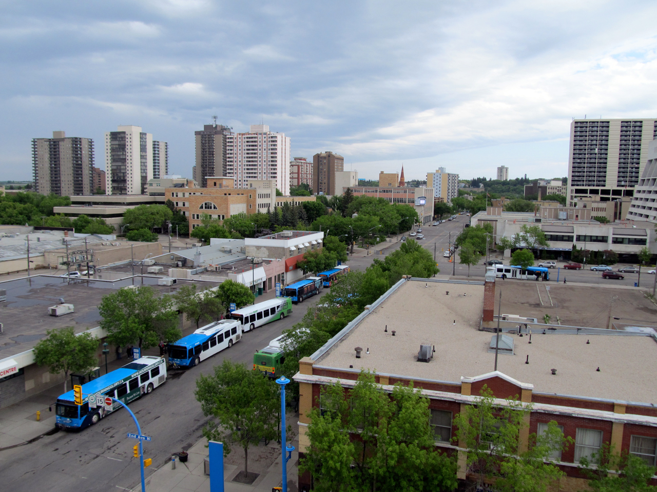 23rd Street East, Saskatoon, Saskatchewan. This is a view from the The King George building roof, looking at 23rd Street East with the transit mall in the foreground.